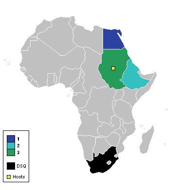 Countries positions in the African Cup of Nations